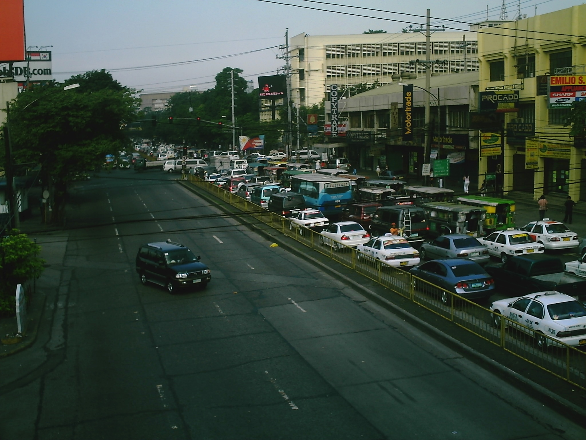 España Boulevard